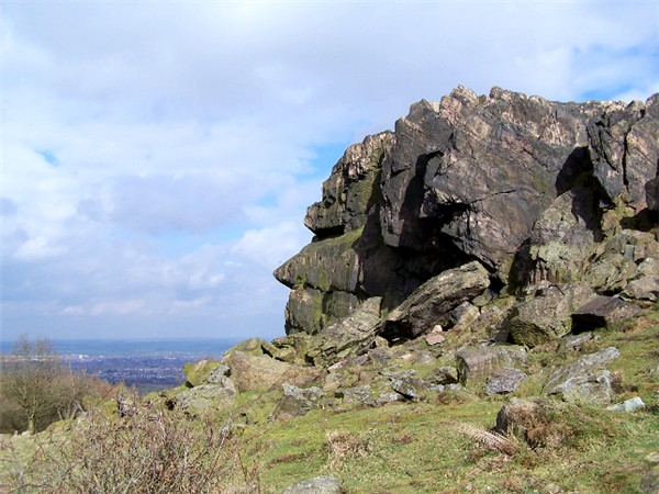 Rock formation known as old man of the beacon. taken by kev747